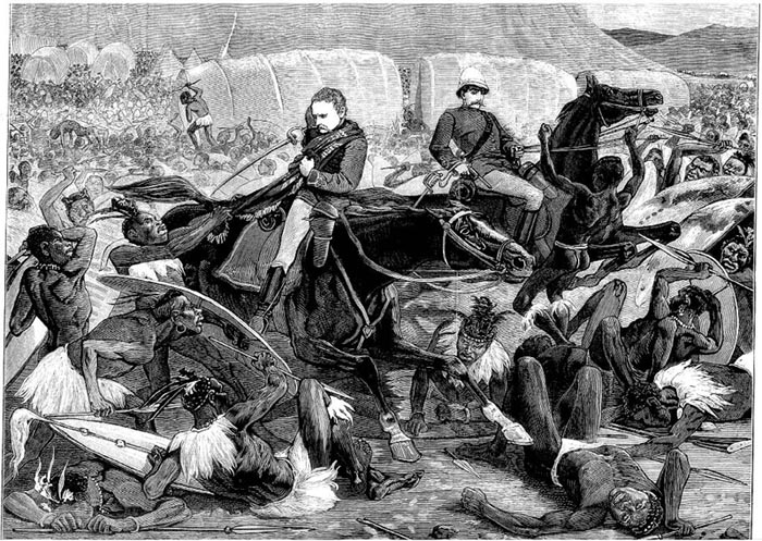 Picture of the Battle of Isandlwana from "Zulu War pictures from the Illustrated London News and The Graphic"